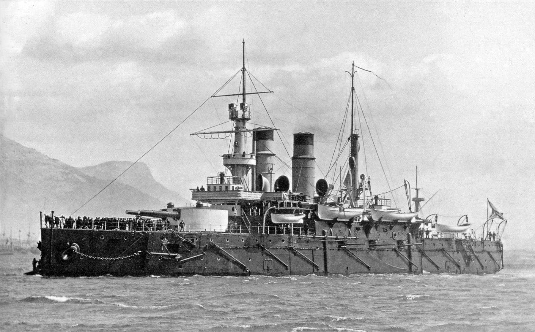 Imperial Russian Ironclad warship Sisoy Velikiy.